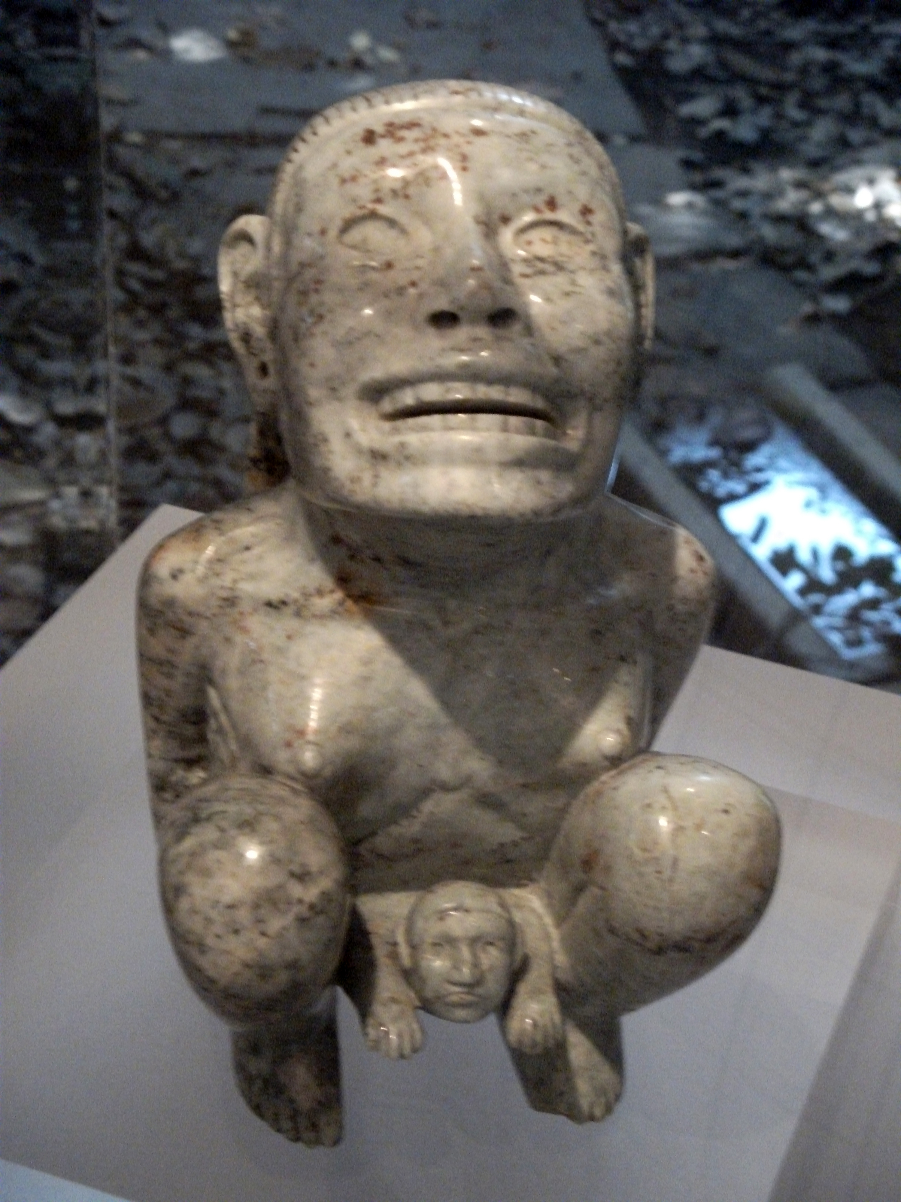 Pre-Columbian collection, Dumbarton Oaks. See bottom of page for museum caption info